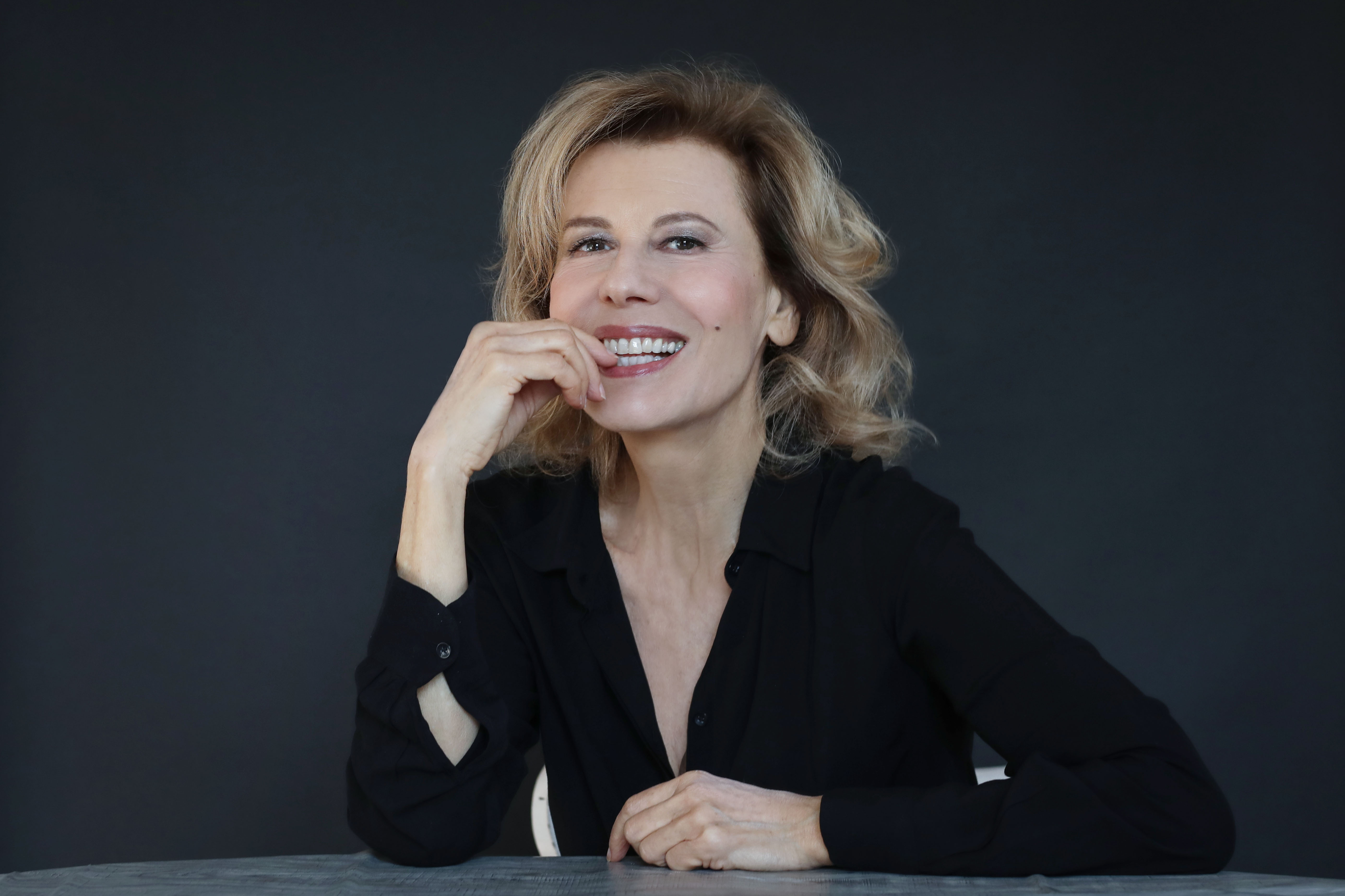 daniela poggi portrait 2020